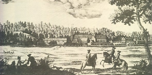 Gdańsk-Oliwa ca. 1765.